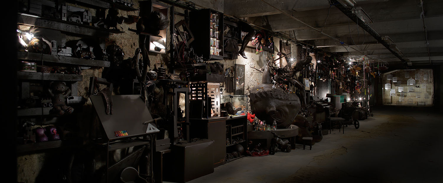 Event Horizon – site-specific, Karlin Studios, Prague, 2015